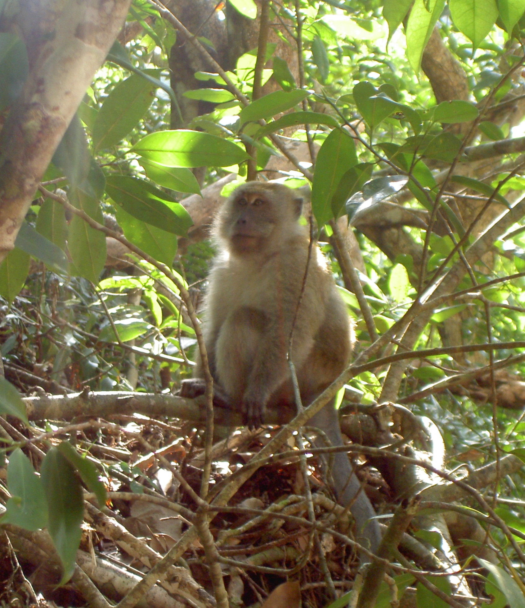 Macaca fascicularis in Tioman, Malaysia